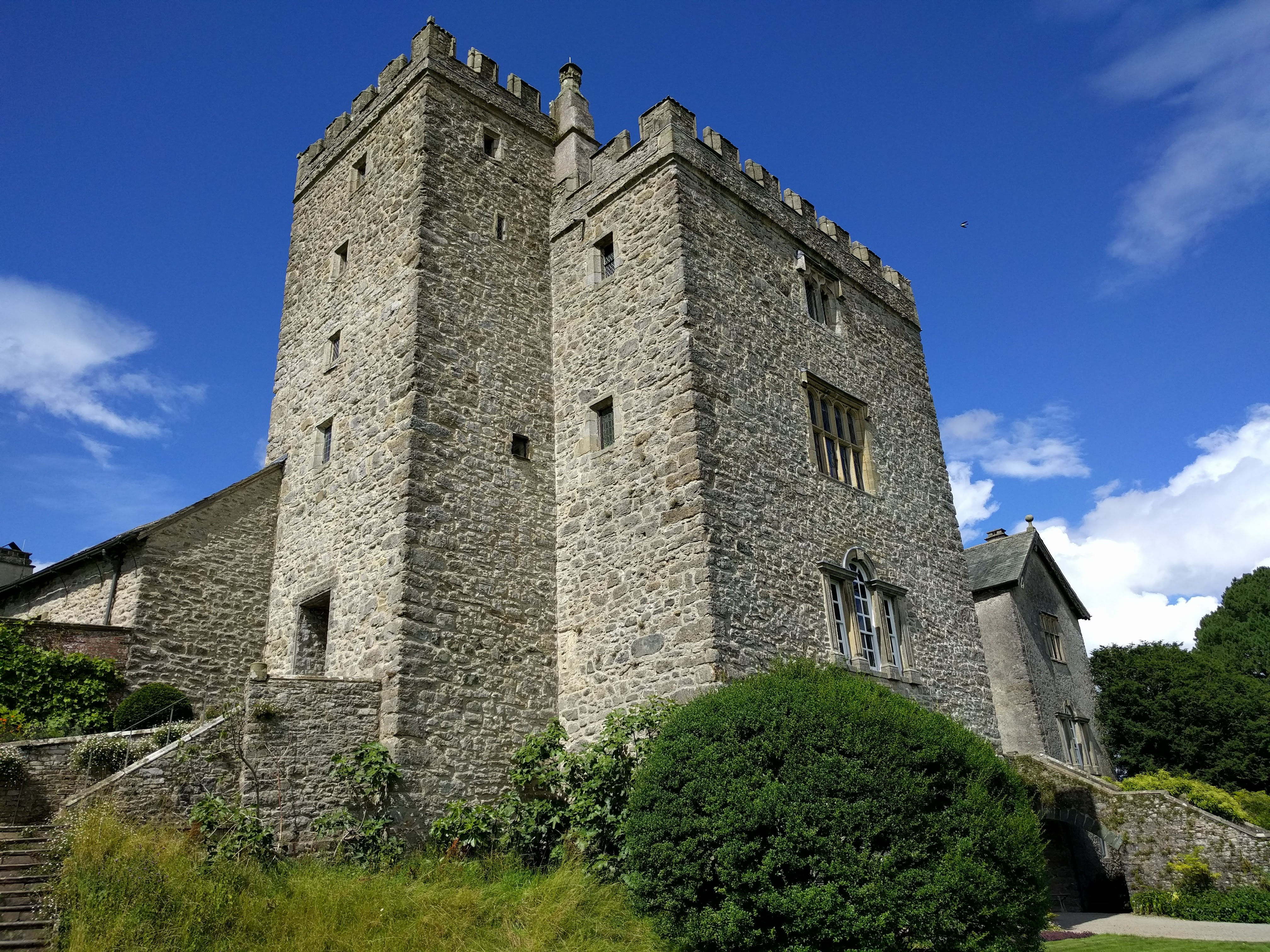 A view of the tower of Sizergh Castle, Cumbria, UK.